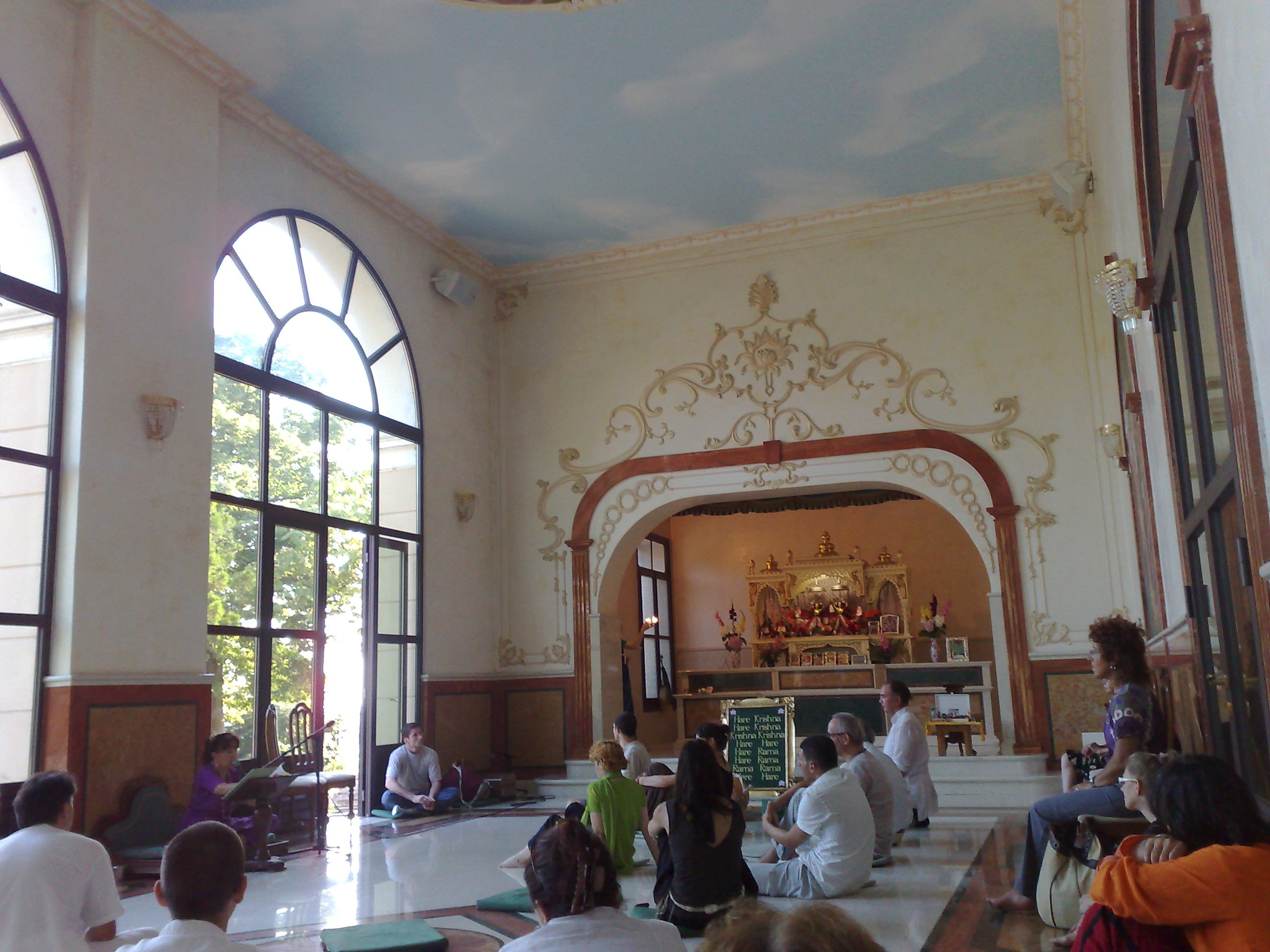 Krishna katha (Citra devi dasi) in Prabhupada desh, Hare Krishna temple in Vicenza